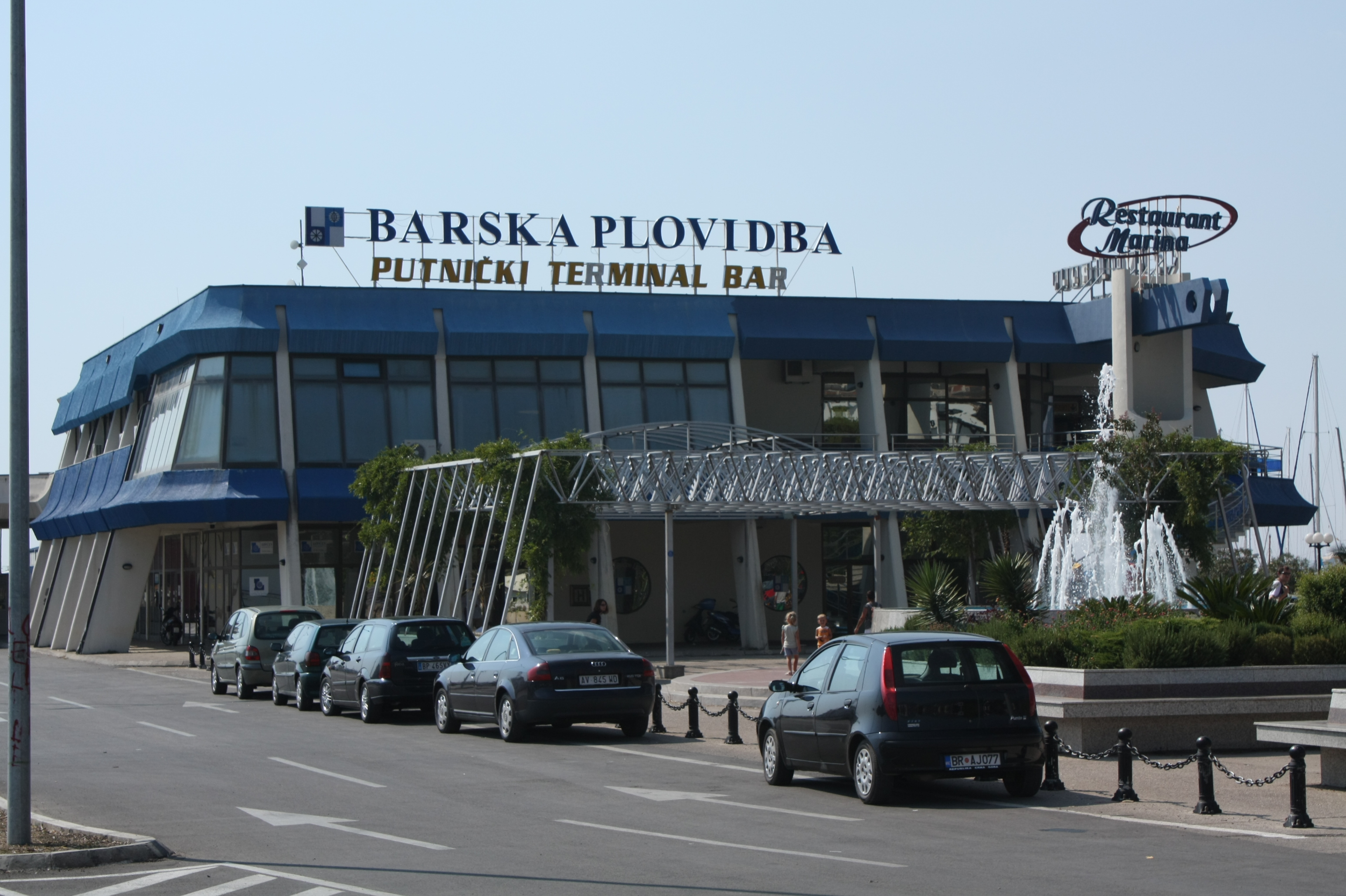 Bar, Montenegro - ship terminal